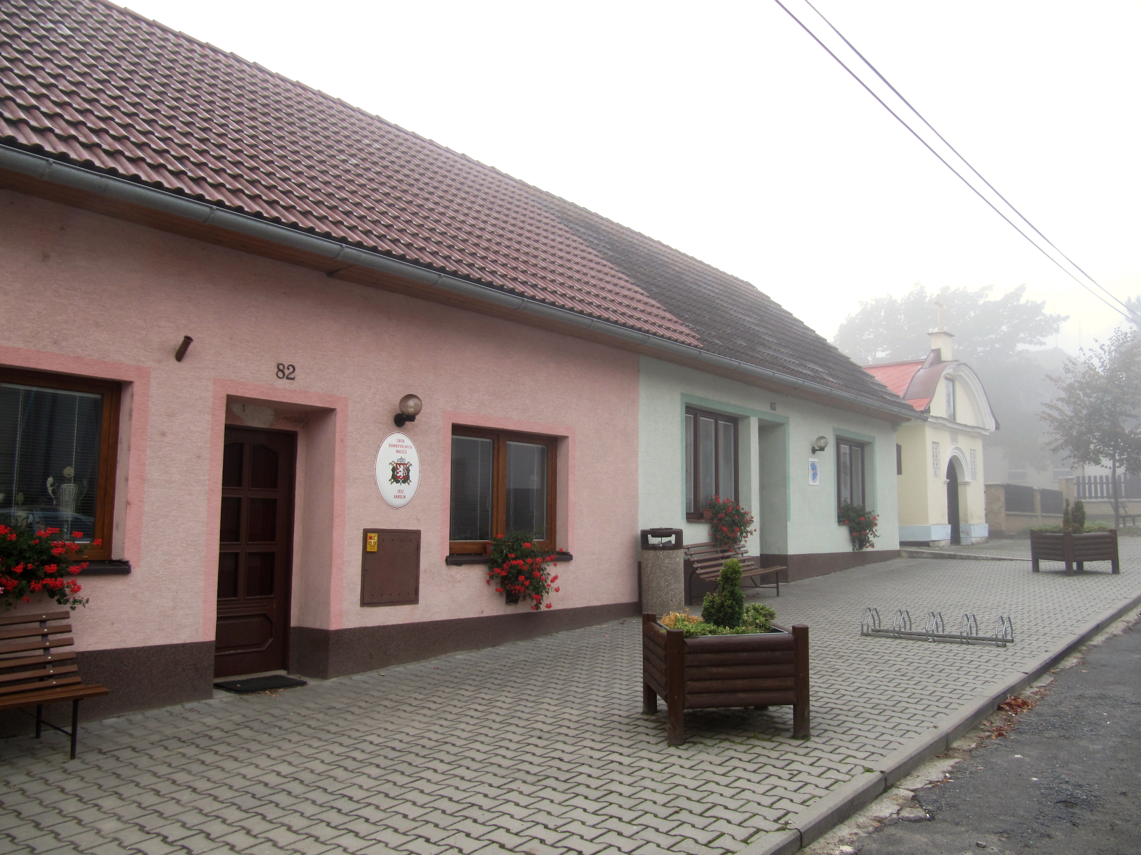 Karolín in Kroměříž District, Czech Republic. Municipal office and chapel.